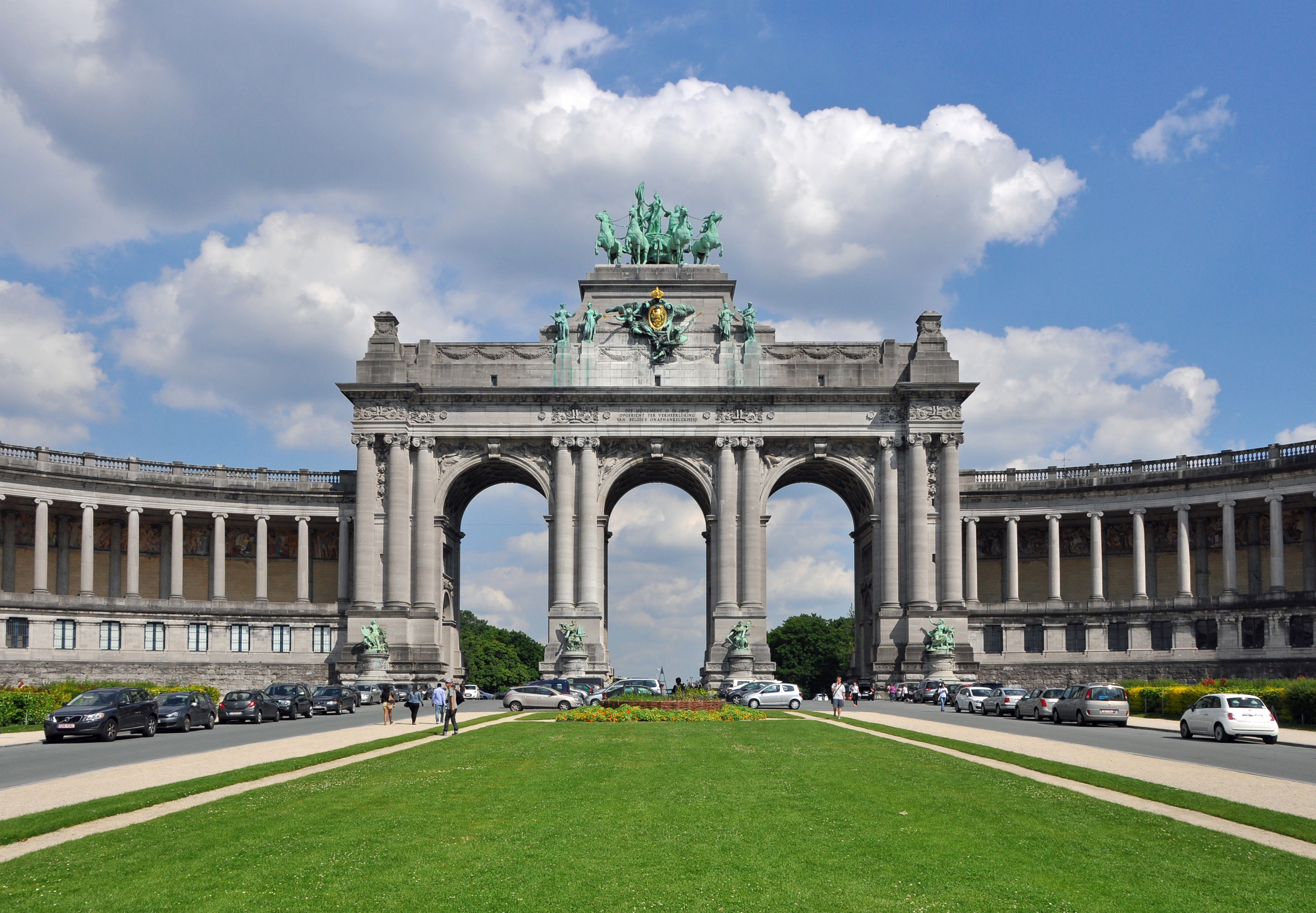 Brussels (Belgium): Triumphal Arch of the Cinquantenaire